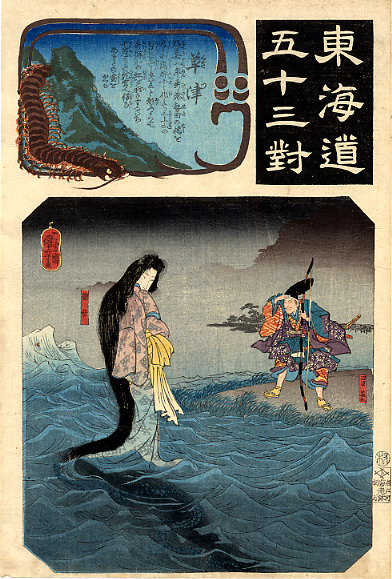 "The 53 stations of the Tōkaidō in pairs" (or "53 Parallels for the Tōkaidō Road"), Kusatsu. The print the Dragon Princess rising from the water to bid Hidesato, standing on the shore of lake Biwa with his bow, to rid the lake of the giant centipede Seta.